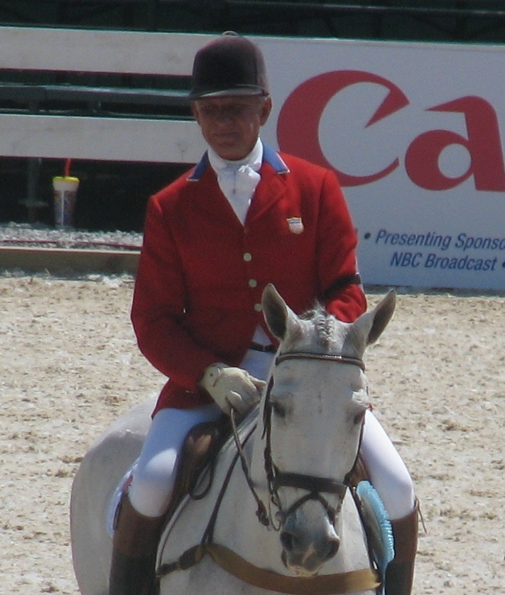 Rolex Kentucky Three Day Event (CCI 4*) 2009, presentation ceremony, Bruce Davidson Sr. with Cruise Lion